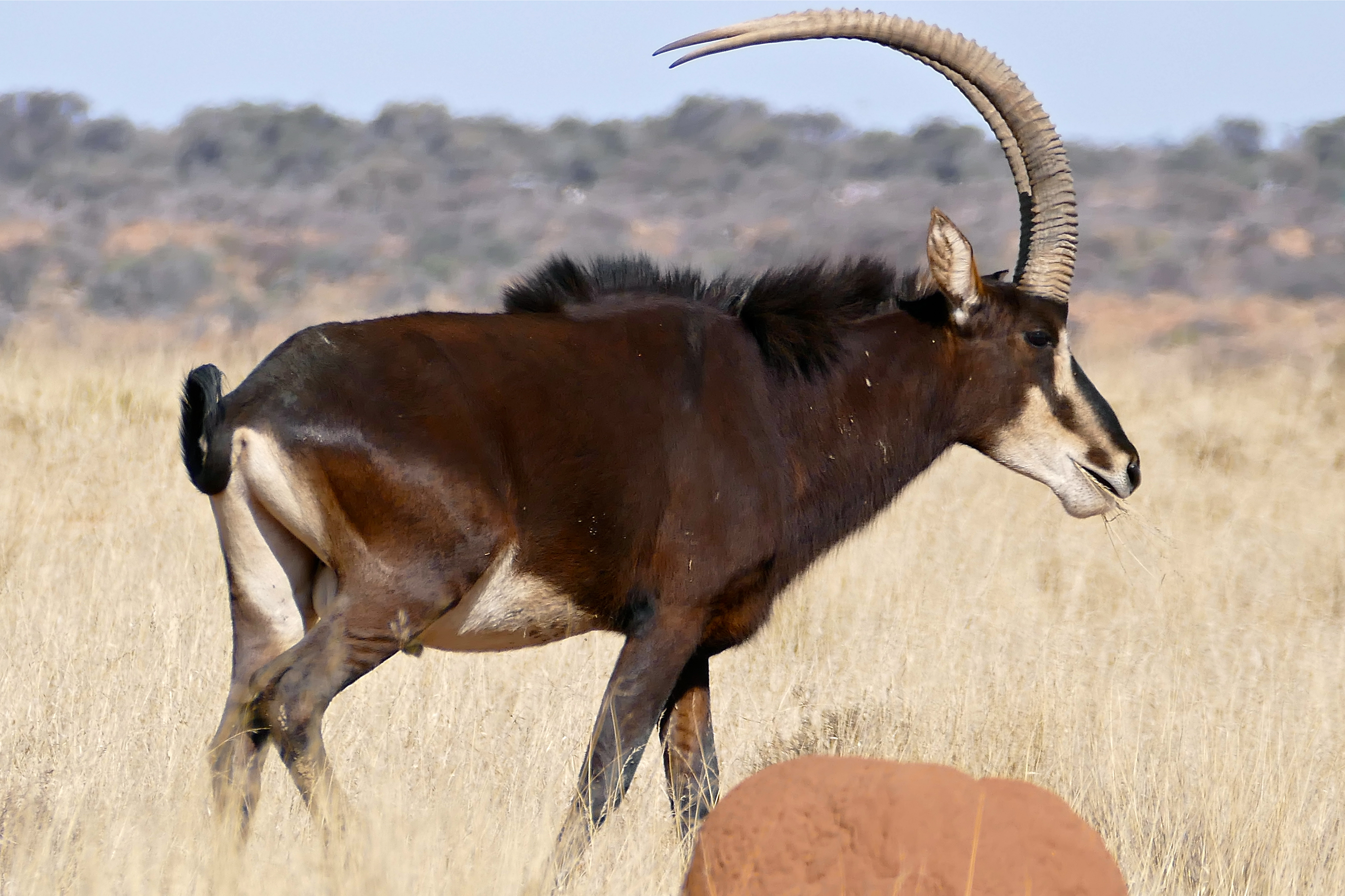 Lilydale Area, Mokala NP, Northern Cape, SOUTH AFRICA